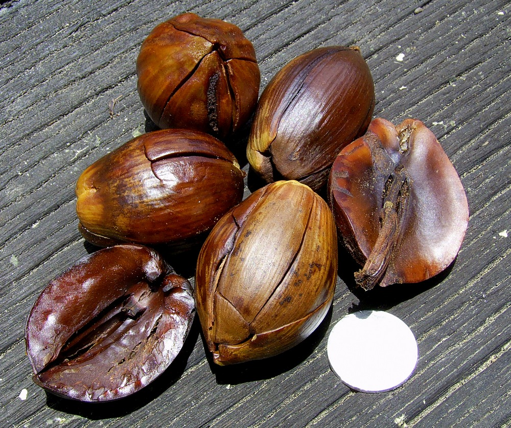 Smoked illipe nut (Shorea sp.), from Sungai Utik, Kapuas Hulu, West Kalimantan, Indonesia